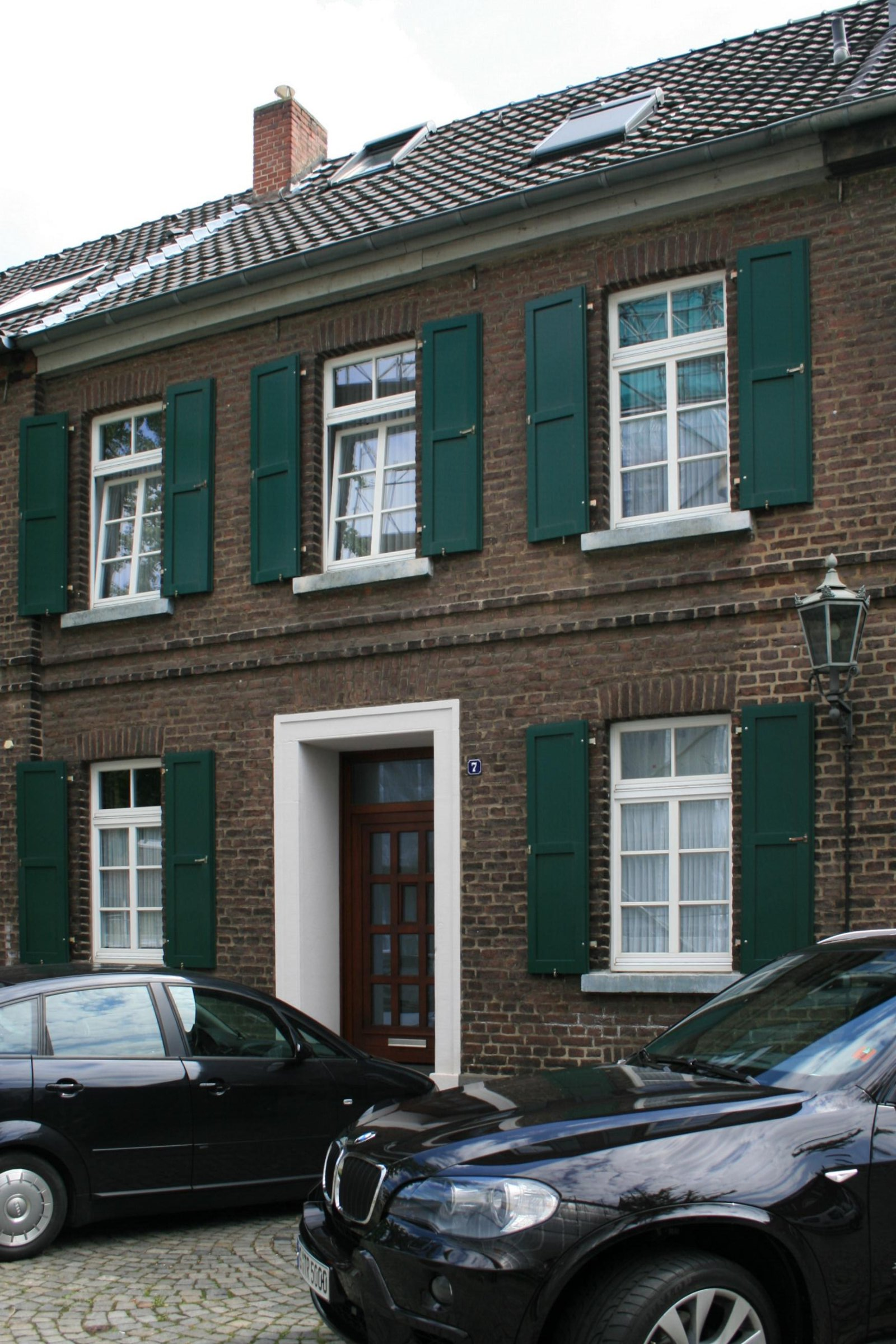 Cultural heritage monument No. K 088 in Mönchengladbach